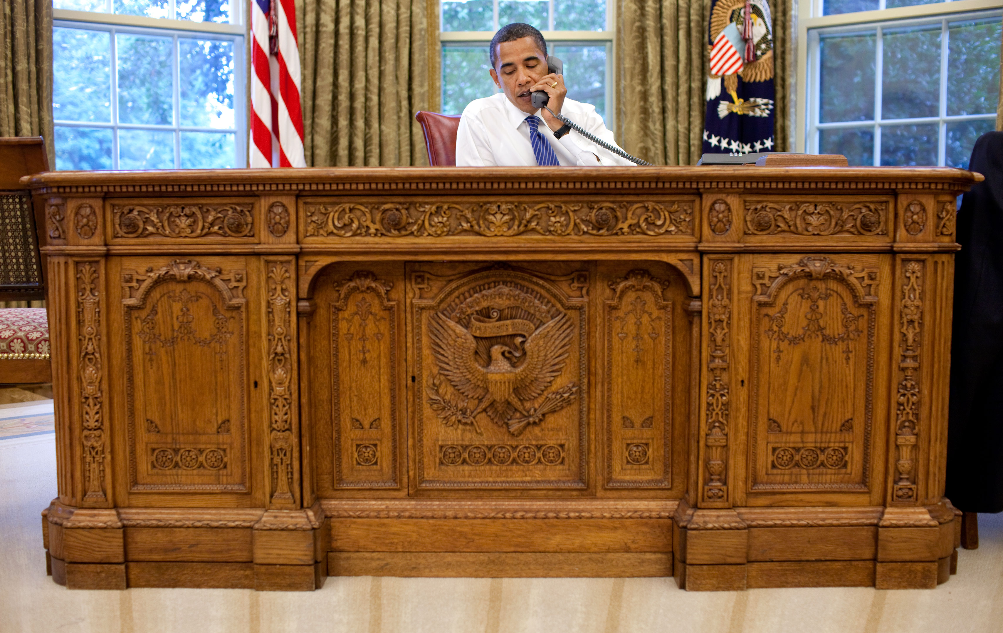 President Barack Obama sits behind the Resolute Desk in the Oval Office during a conference call with people of faith on Aug. 19, 2009.